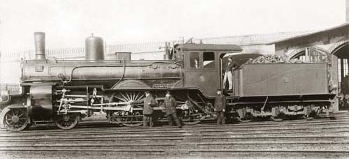 Steam locomotive Prussian S 3 (BMAG 2374/1897) in Berlin-Gesundbrunnen locomotive depot.